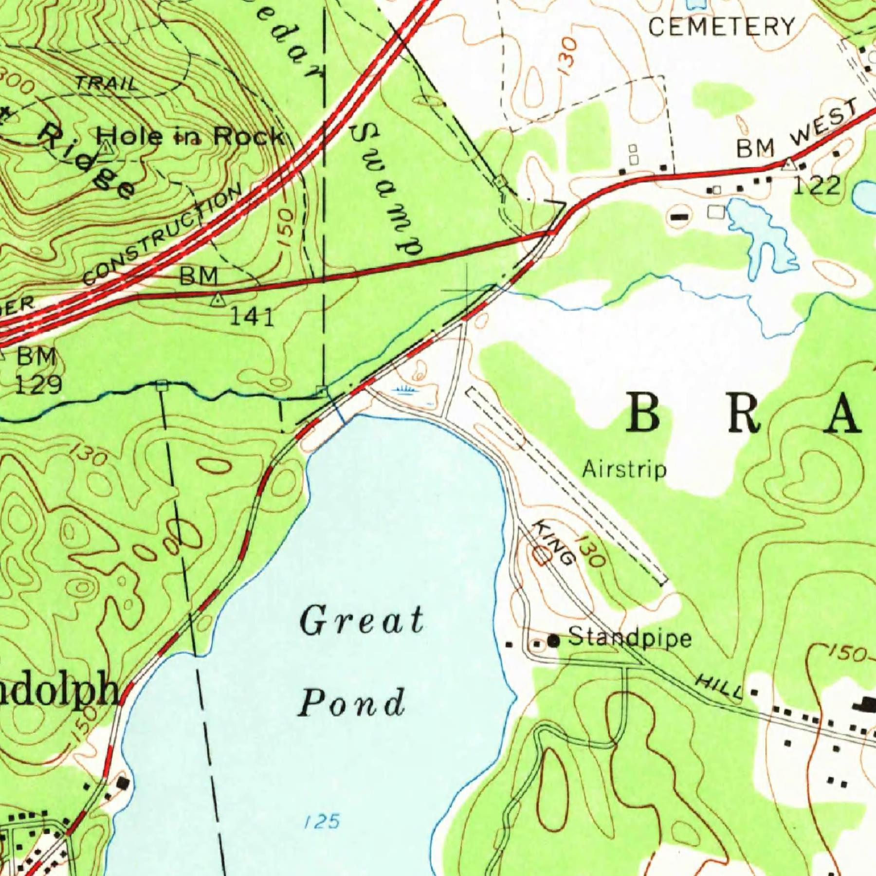 Topographic map of Braintree, Mass airport